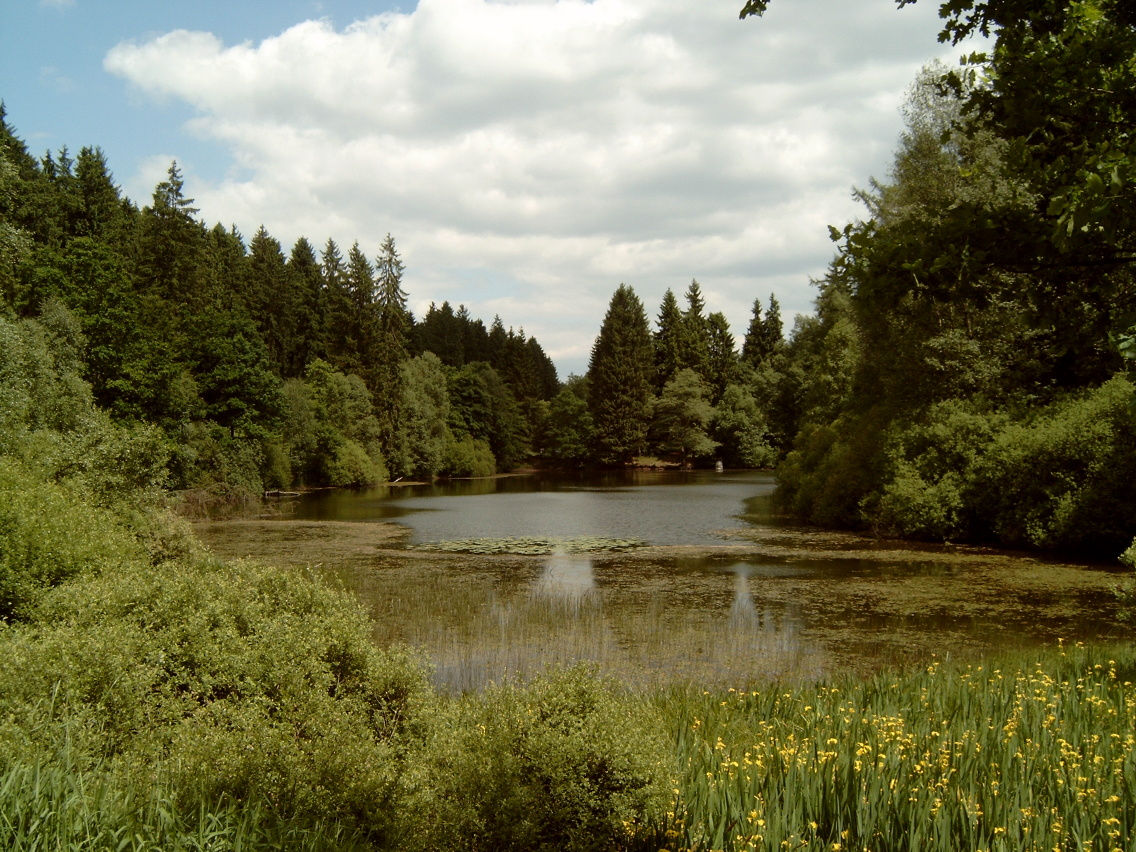 pond "Neuer Teich" in the forrest "Solling"